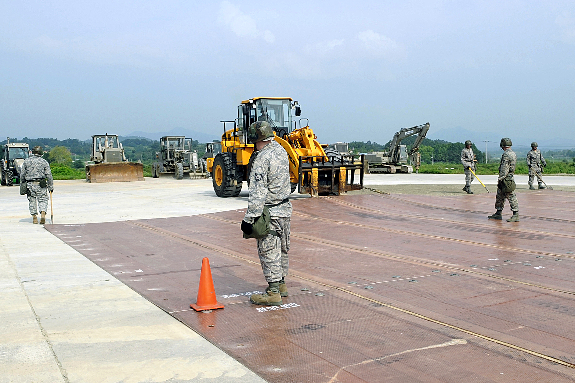 U.S. Air Force airmen stand on a folded fiberglass mat as it is moved into place by a 10,000-pound forklift on a simulated runway on Jungwon Air Base, South Korea, Aug. 19, 2009. The airmen are assigned to the 51st Civil Engineer Squadron on Osan Air Base, South Korea. The 30-foot long, 54-foot wide mats, used to quickly repair runway damage, are being moved during an exercise with airmen from the South Korean air force.